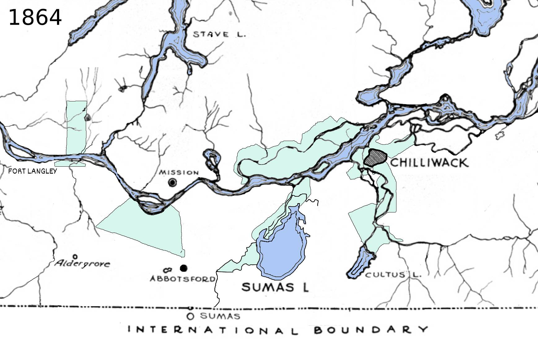 Colony of British Columbia Governor James Douglas asked Sergeant William McColl to make a map of the land of the Central Fraser Valley First Nation peoples. This map is based off McColl's map. It is "a rough diagram showing the position of the reserves laid off for Government purposes on the Fraser, Chillukweyak[sic], Sumass[sic] and Masquei[sic] Rivers," W. McColl, 16 May 1864, 31 Tray 1, Land, Reserves, Office of the Surveyor General, Victoria, B.C.: Land Title and Survey Authority of British Columbia[1]